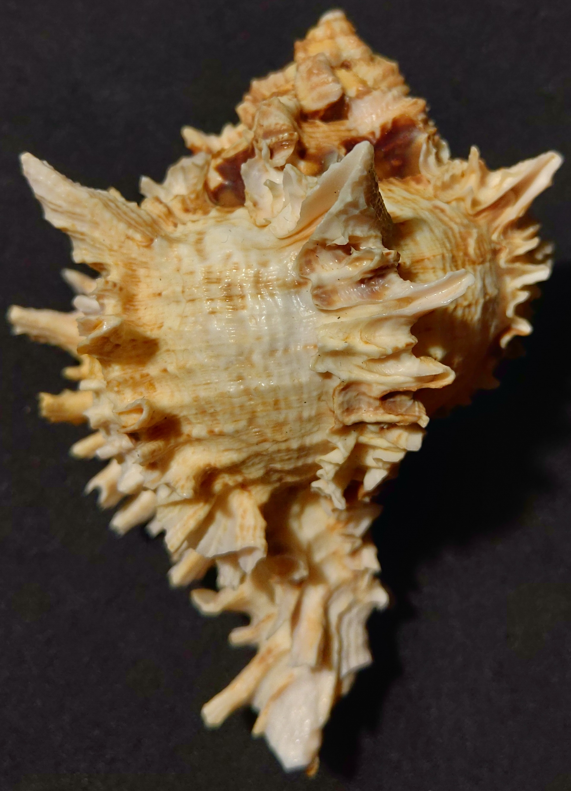 Hexaplex Regius Back